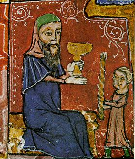 Havdalah Service (to mark the end of the Sabbath).